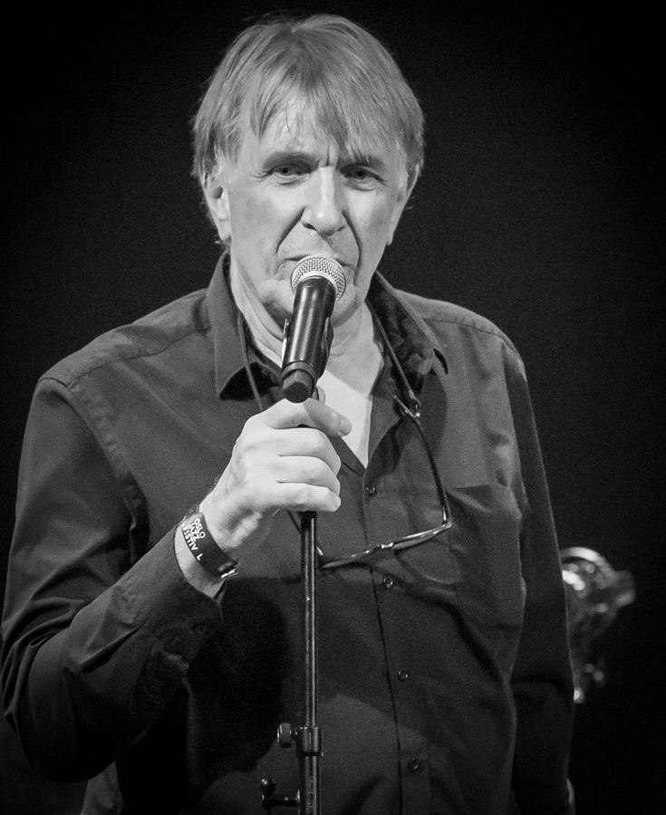 Per Husby with Per Husby Dedications Orchestra at the stage of Nasjonal Jazzscene Victoria. The concert was part of the Oslo Jazz Festival in Norway and took place on 18. August 2016. Lineup: Karin Krog (vocal) Hermund Nygård (drums) Jens Fossum (double bass) Helge Lien (piano) Daniel Herskedal (tuba) Trude Eick (horn) Kristoffer Kompen (trombone) Eirik Eilertsen (trumpet) Ole Jørn Myklebust (trumpet) Kasper Værnes (saxophone) Knut Riisnæs (saxophone) Håvard Fossum (saxophone) Nils Jansen (saxophone) Per Husby (bandleader)